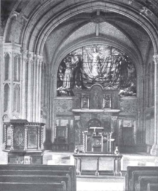 the 'La Farge' stained glass window, inside Congregational Church circa 1900, 26 Pleasant St, Methuen, Massachusetts.